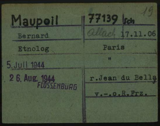 Registration card of Bernard Maupoil as a prisoner at Dachau Nazi Concentration Camp.